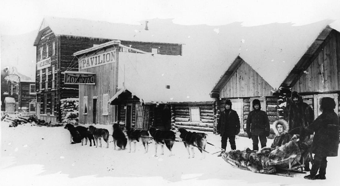 Photograph, A. C. Company's dog team, Dawson, YT, 1899, Edwin Tappan Adney, Silver salts on glass - Gelatin dry plate process - 10 x 12 cm